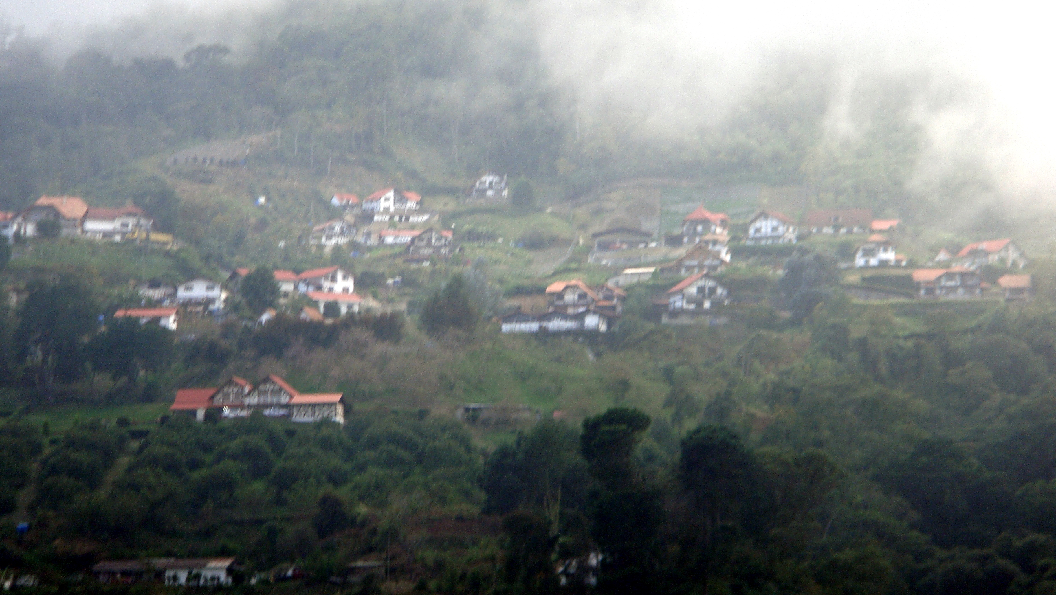 Colonia Tovar, Venezuela